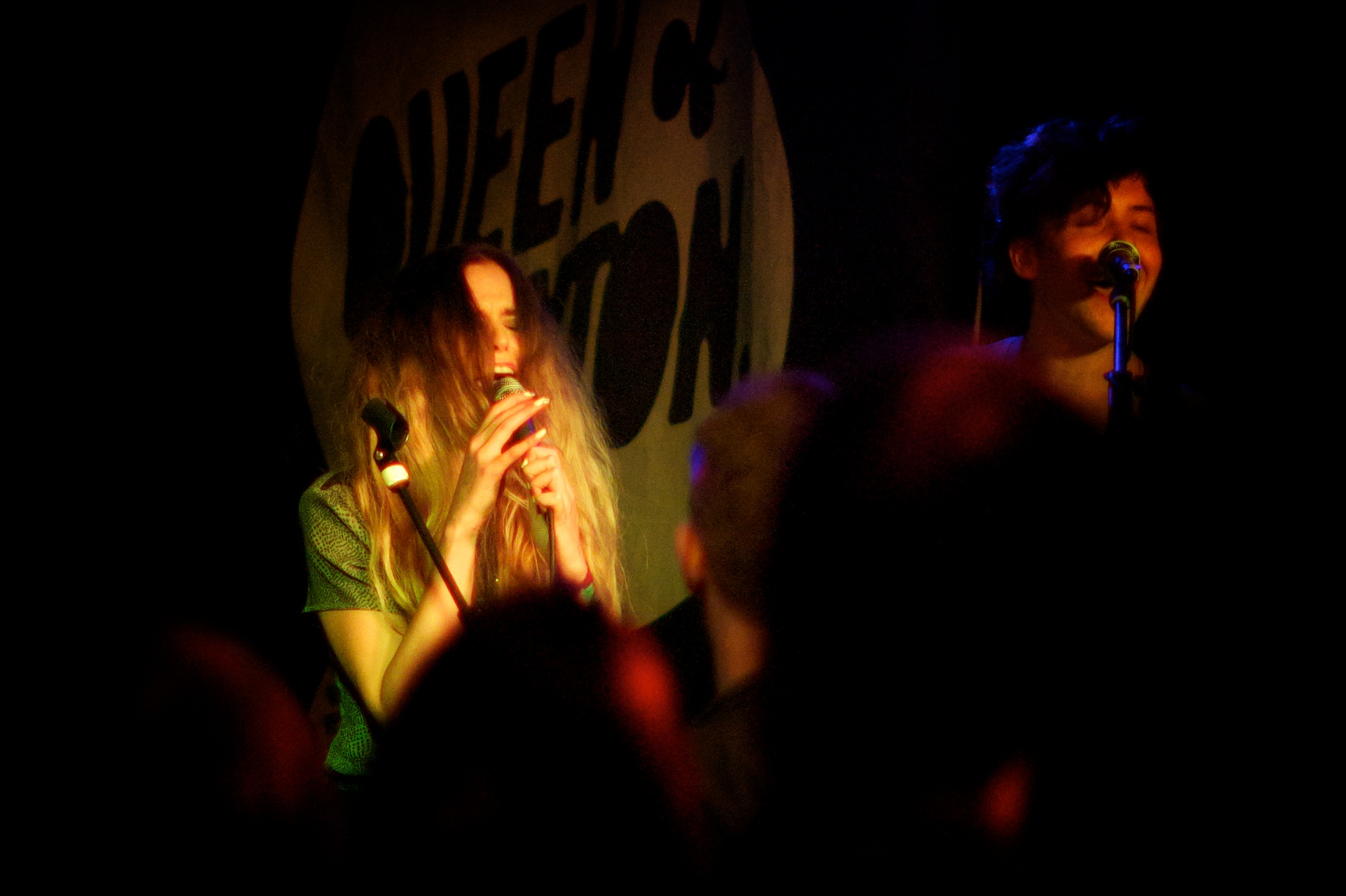 Kyla La Grange